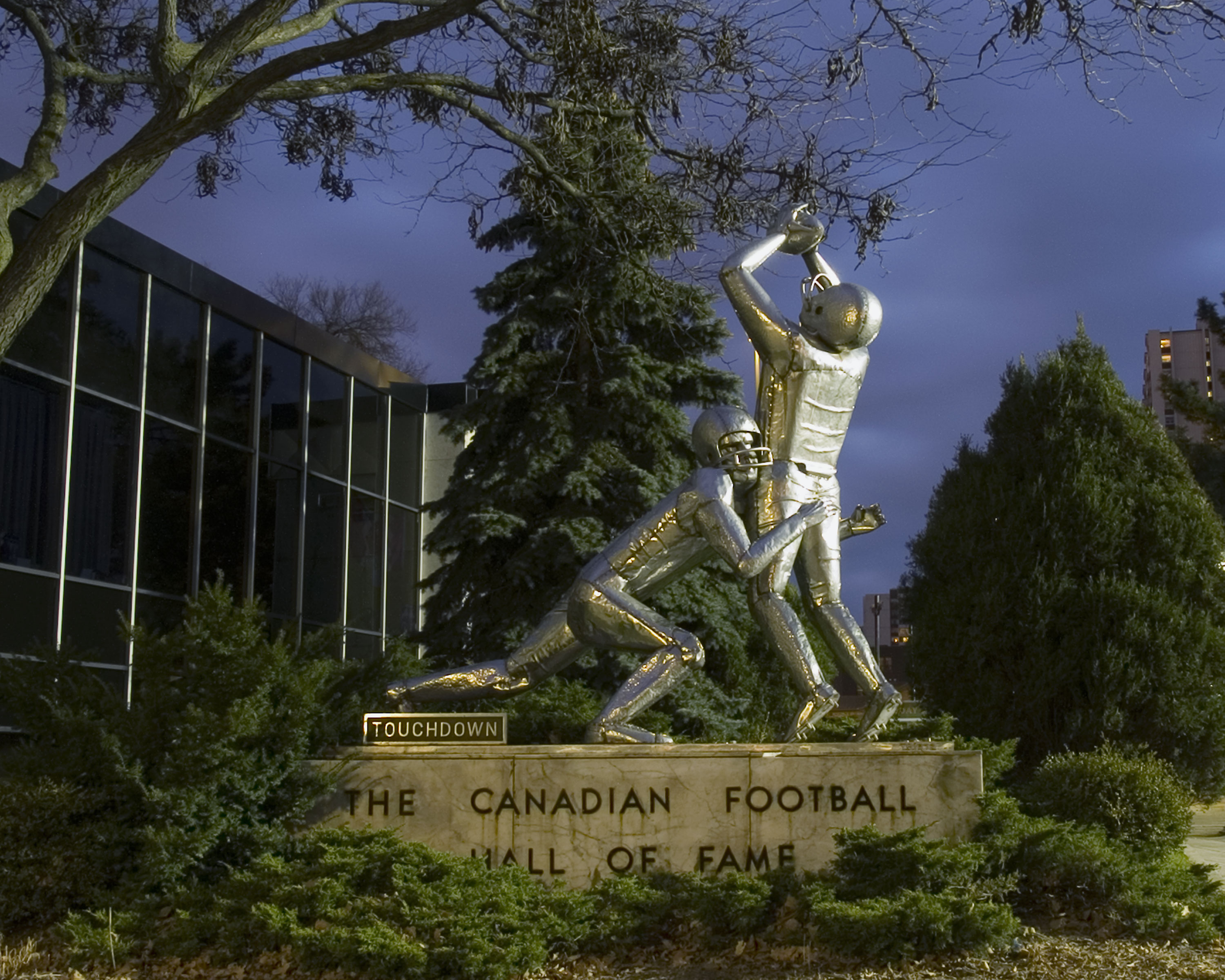 Hamilton Canadian Football Hall of Fame Touchdown Statute